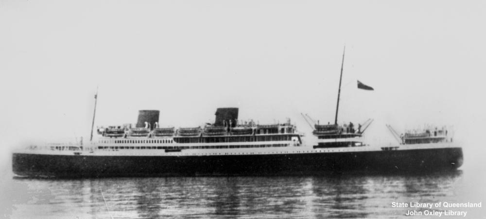 Asturias (ship) The 'Asturias'. Royal Mail Steam Packet Company. Built 1925, 22071 tons. In 1939 she was converted in to an armed merchant cruiser. In July 1943 she was torpedoed while escorting a floating dock to Freetown. She remained afloat and was towed 400 miles to that port where she lay derelict until 1945. She was taken to Gibraltar and then to Belfast and after being repaired, was used to carry immigrants to Australia. In 1954 she became a regular peacetime trooper. Broken up in 1957. (Description supplied with photograph). Seen here on trials early in 1926.